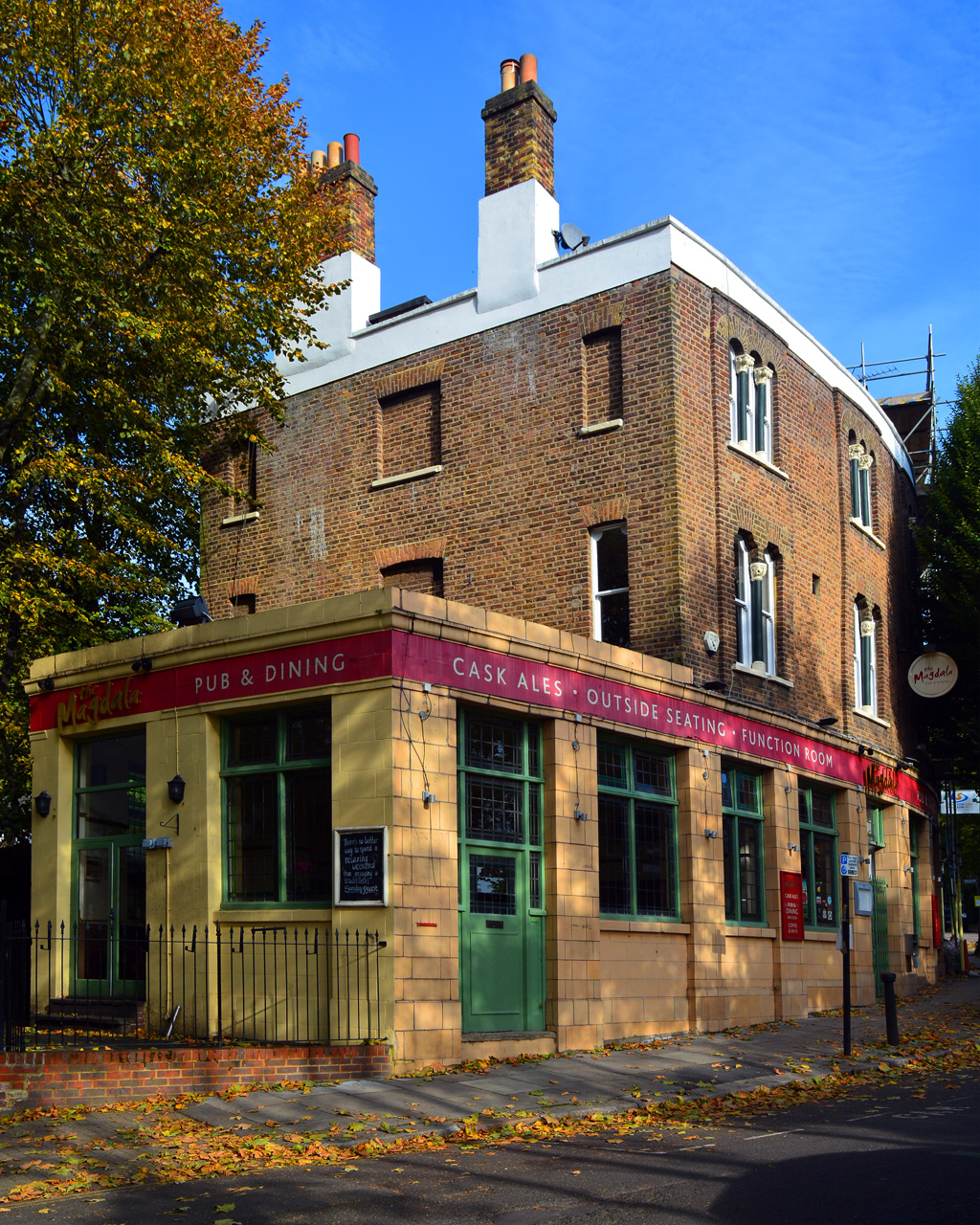 Freehold recently bought for GBP2.1M but thought to be re-opening still as a pub in the New Year. It was outside the Magdala where Ruth Ellis shot her boyfriend in 1955 thereby becoming the last woman to be hanged in the UK. South Hill Park, Hampstead, London Borough of Camden. ( CC BY-SA - credit: Photo by George Rex.)